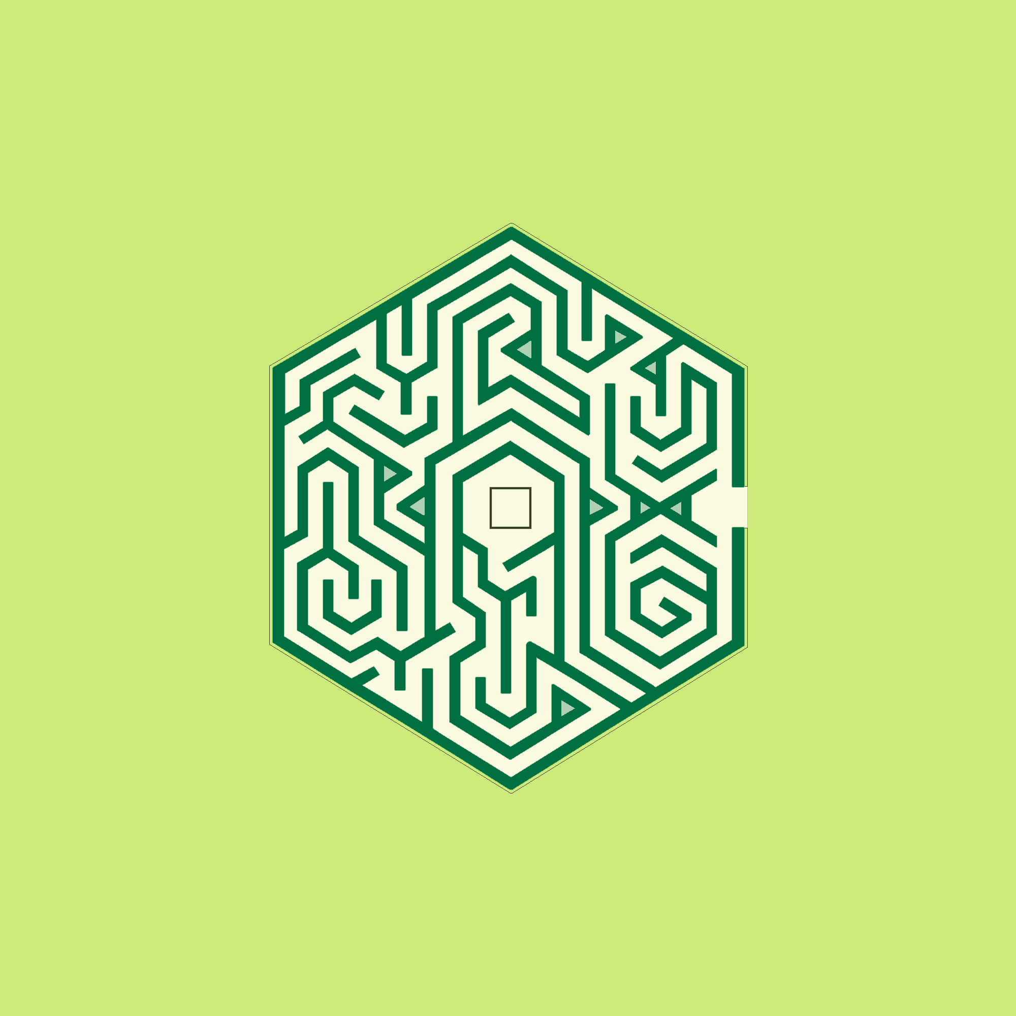 Hedge maze in Frederiksoord De Koloniehof planted 1992. This maze is an enlarged copy of the destroyed one in Arley Hall.